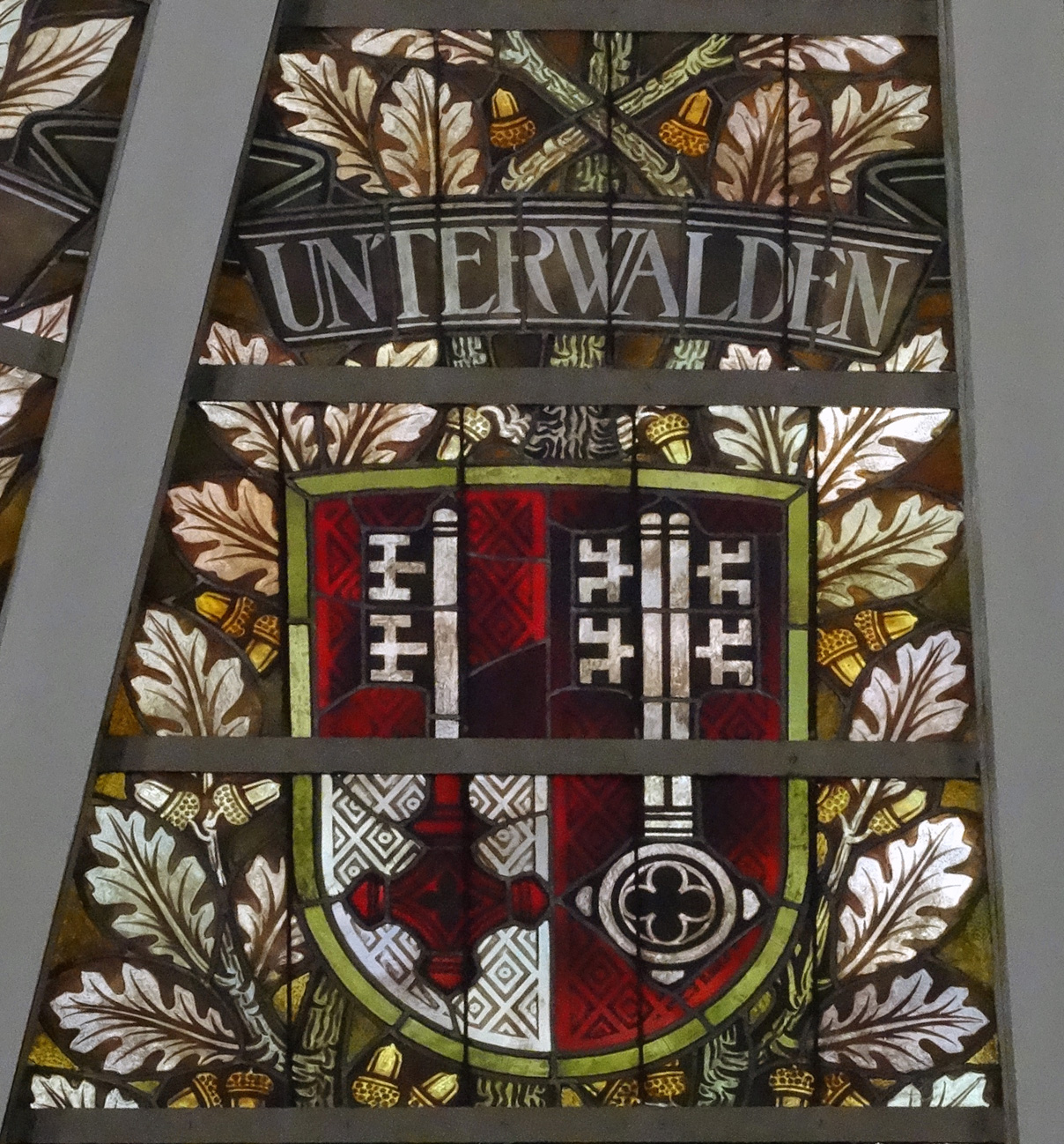 Federal Palace of Switzerland - stained glass windows of canton of Unterwalden